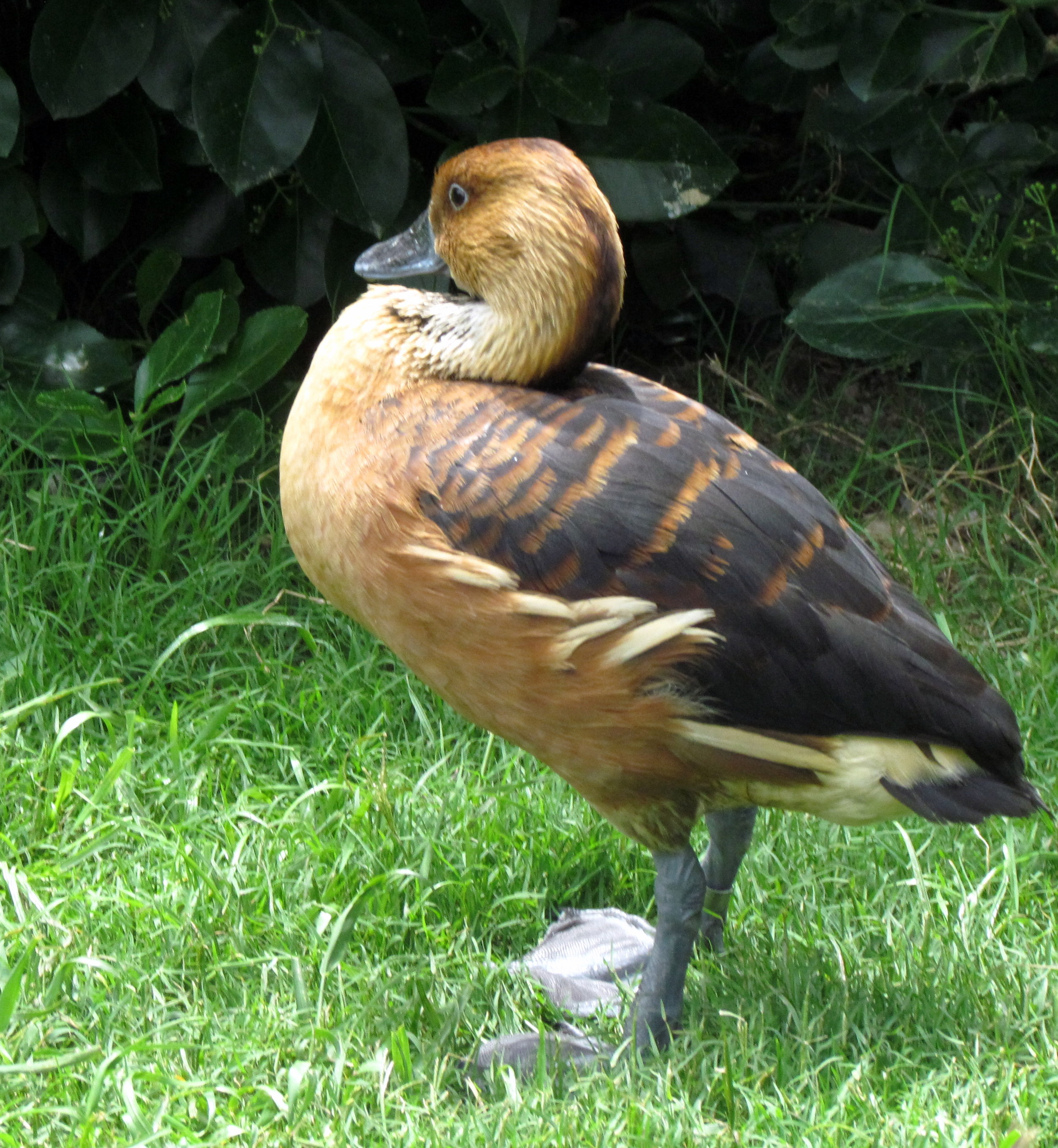 Bird at Sylvan Heights Waterfowl Park Waterfowl Center